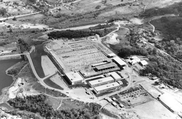 Vale panoramica vista aerea bloco ii